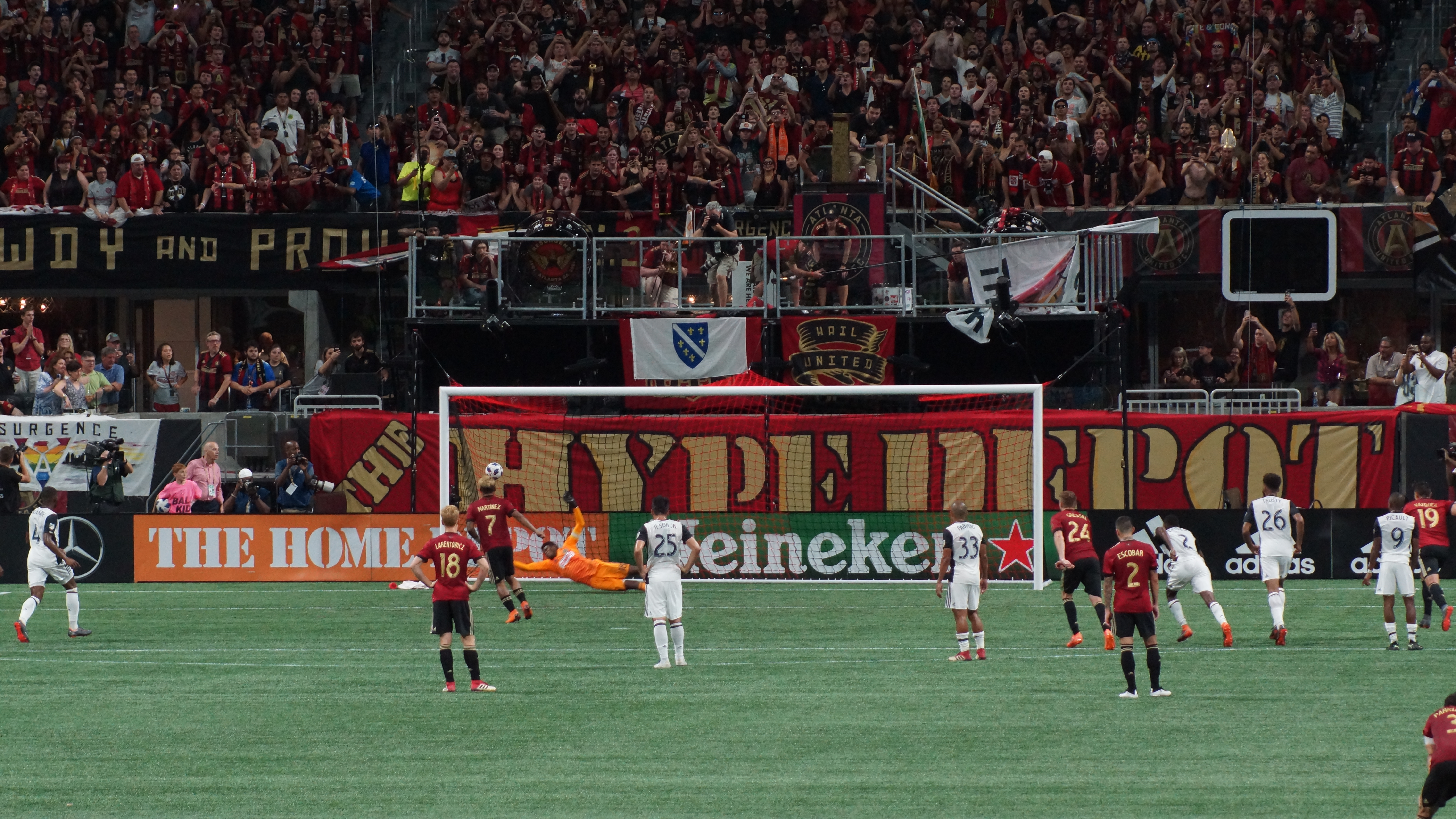 2018-06-02 - Atlanta United vs Philadelphia Union - Martinez scoring